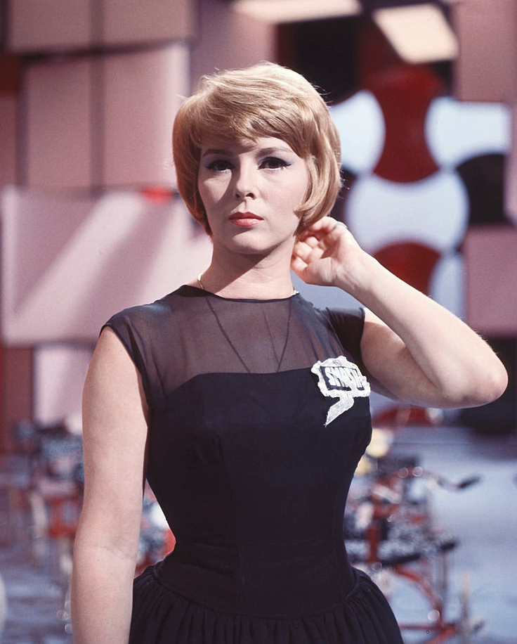 Half-length portrait of Delia Scala, nome de plume of Odette Bedogni, wearing an elegant black dress, who fixes her bob in an off-air during the variety show Smash she presents; Delia Scala has been a well-known figure of the Italian television and put back at the top the role of the soubrette, thanks to her talent in recitation and dance. Italy, 1963.